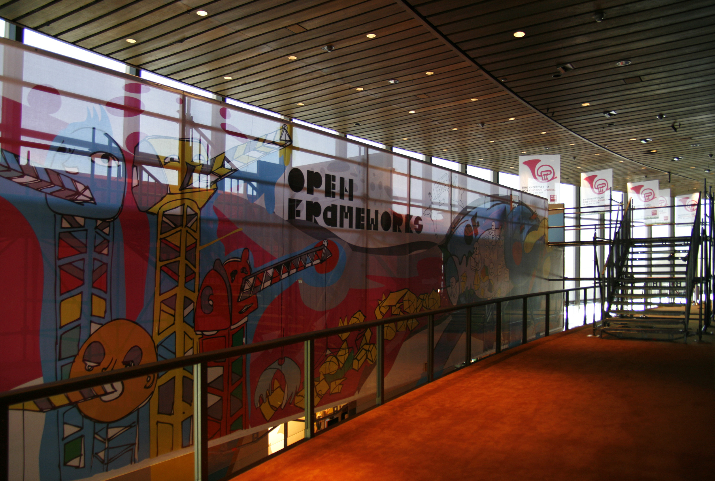 Presentation of the project openFrameworks at the Ars Electronica Festival 2008 (Brucknerhaus, Linz)